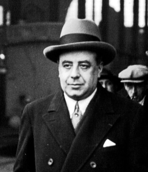 Picture of Henri Torrès